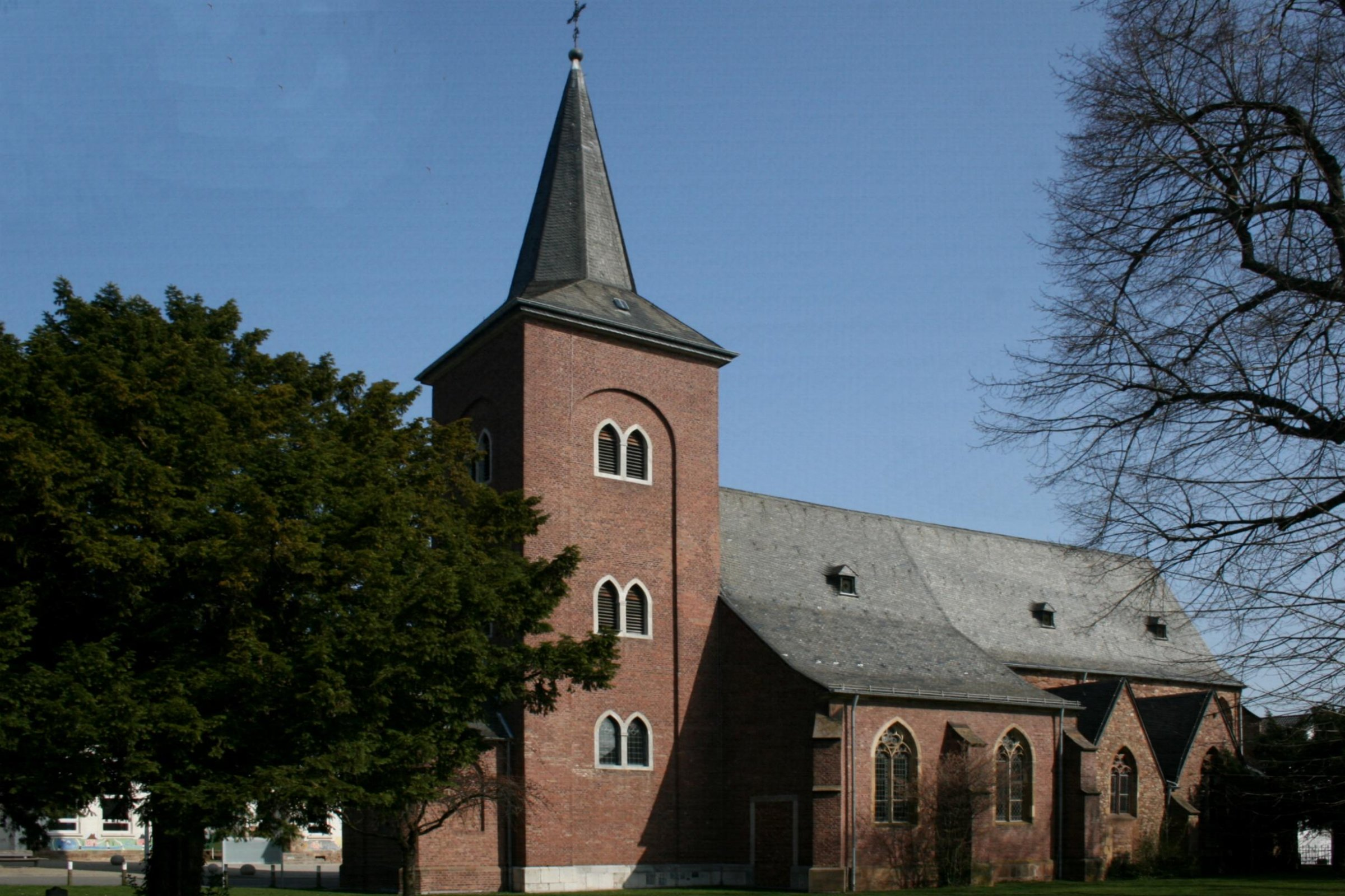 Cultural heritage monument No. 3/026 in Düren